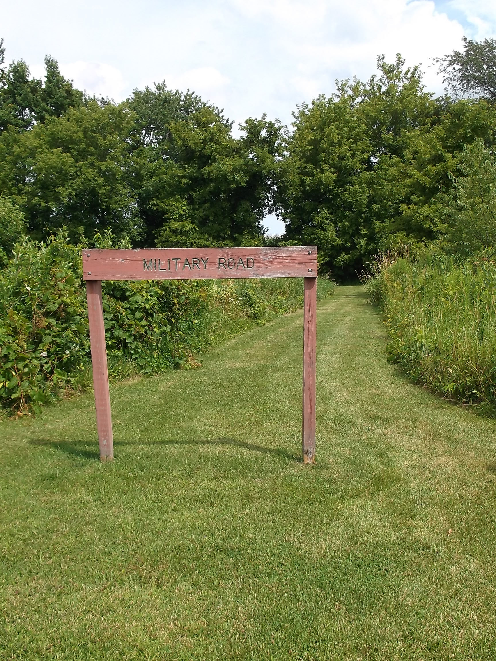 This image shows Raube Road, a preserved segment of the first Wisconsin military road, constructed in the 1830's.